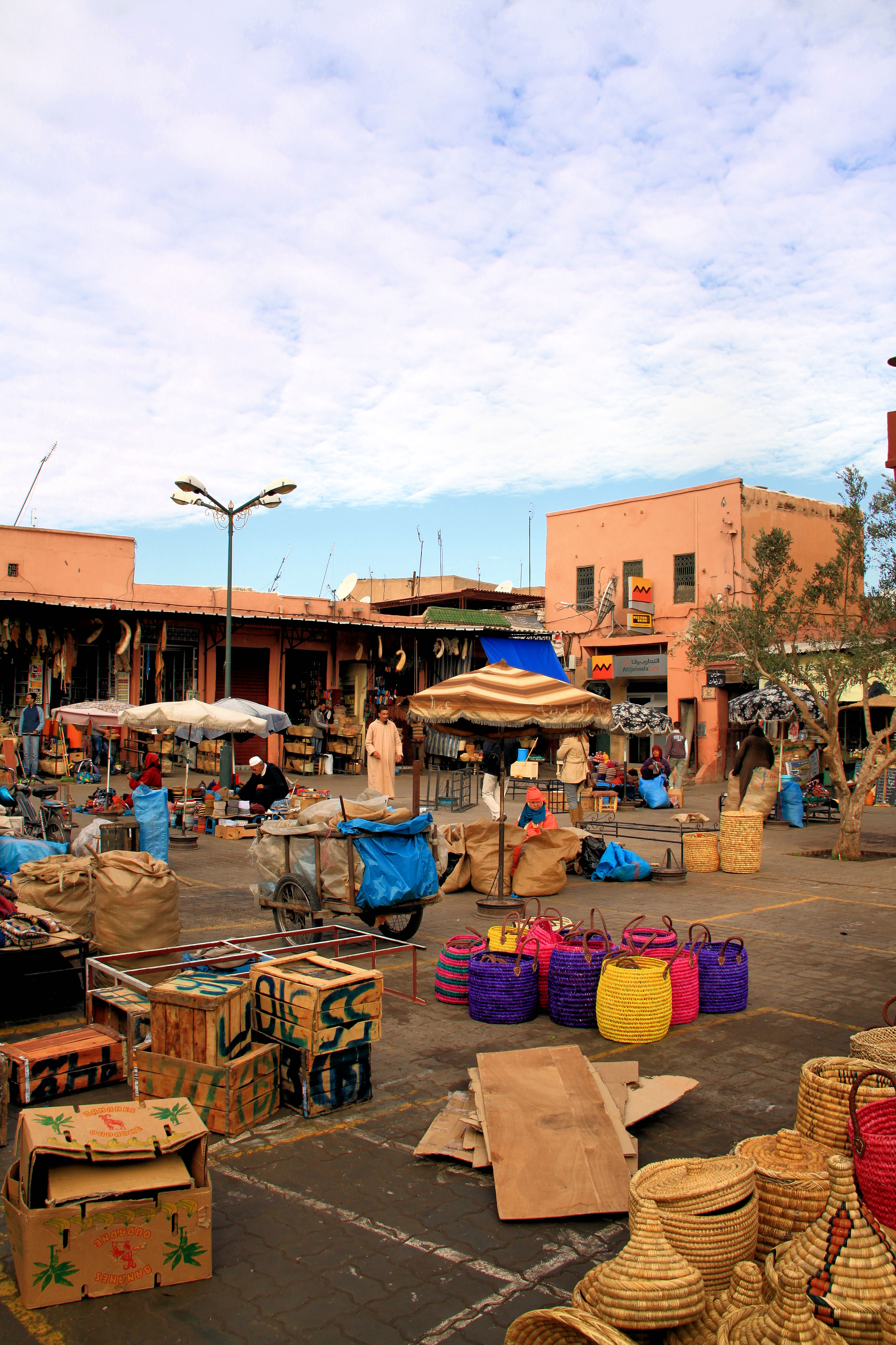 View of a souq in Marrakech just before owners open their stalls.